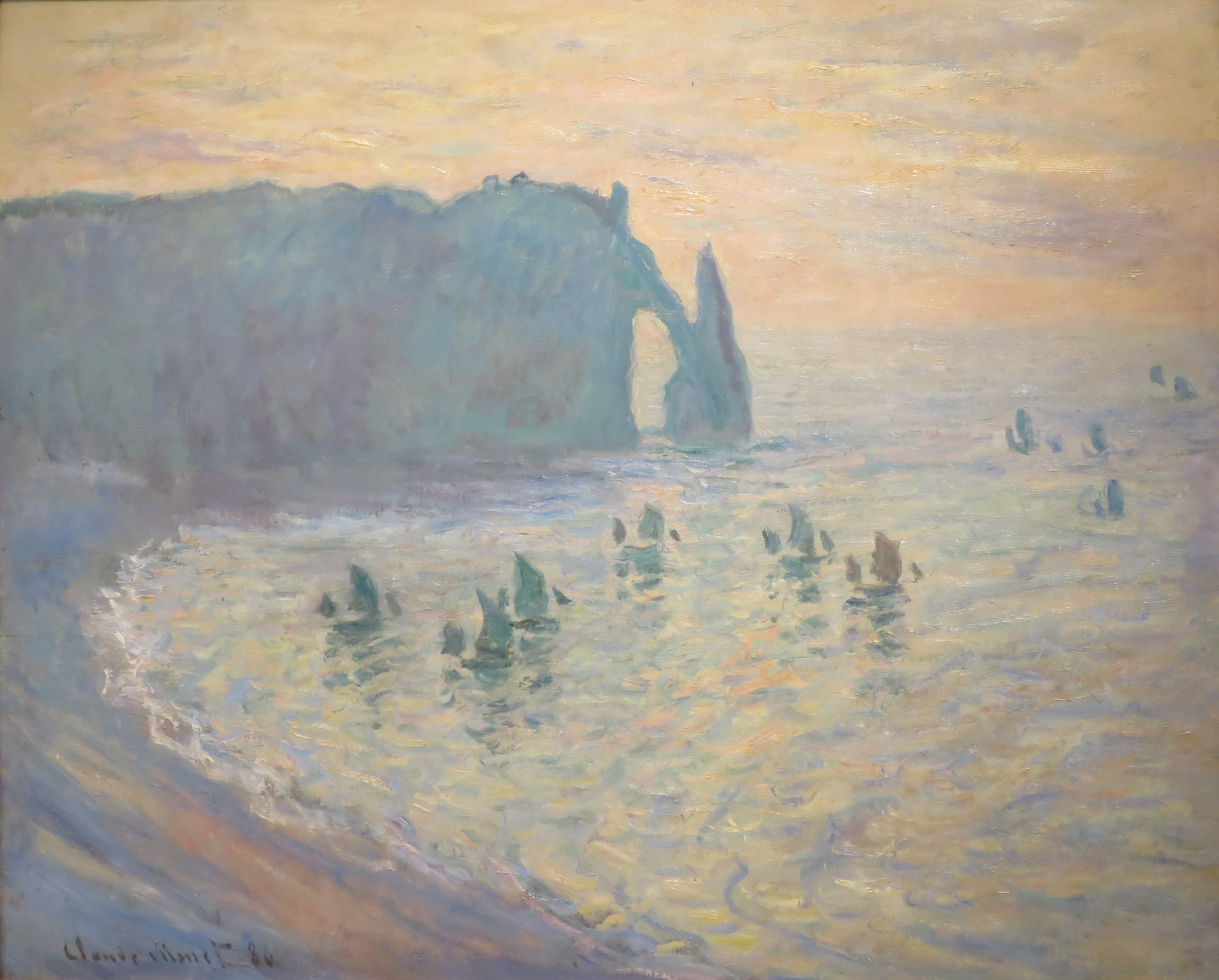 Cliffs at Étretat by Claude Monet, 1886, Pushkin Museum